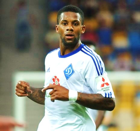 Jeremain Daud Lens